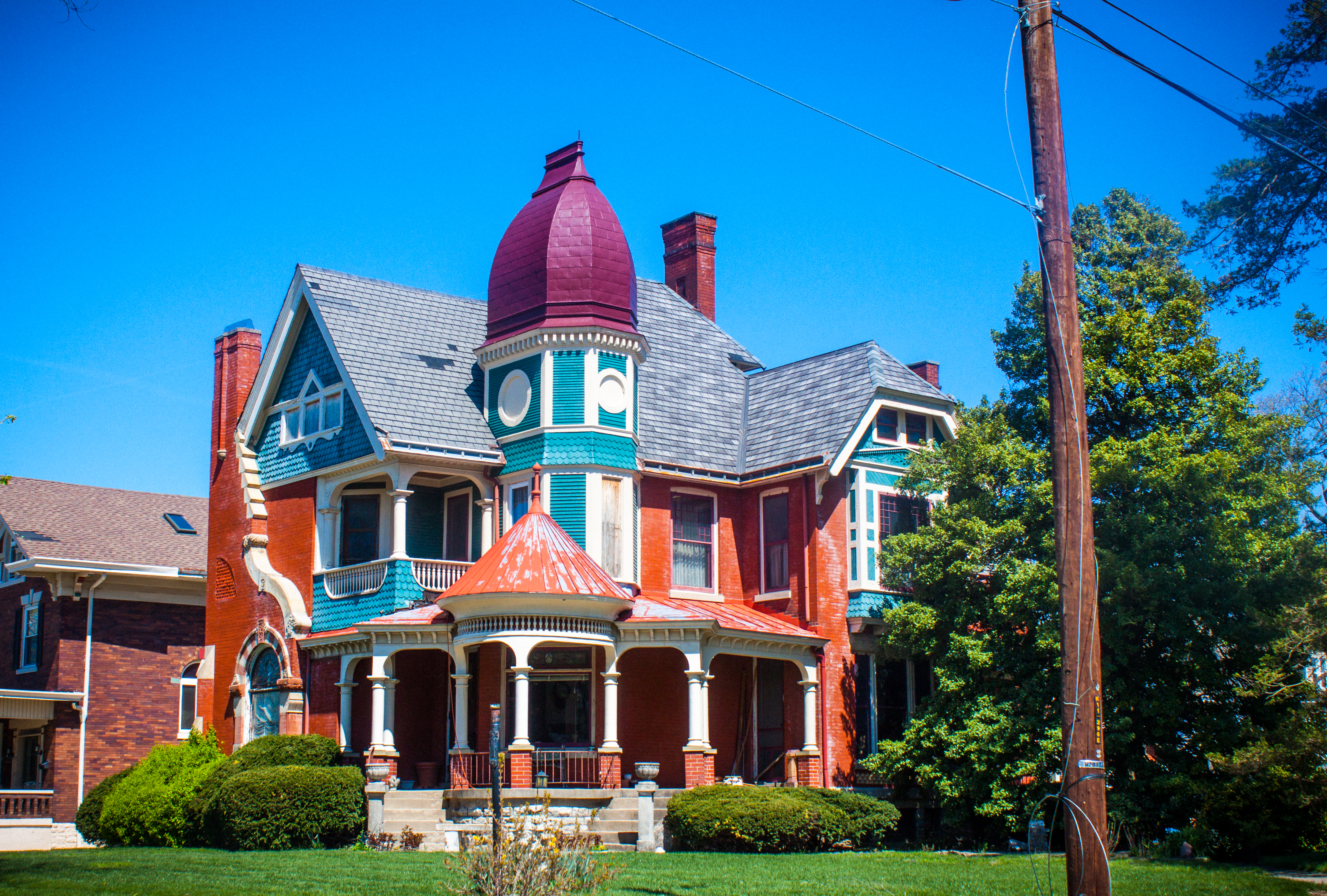 Photograph of a historic 1890 victorian house at 3904 Floral Avenue at Hudson Avenue, Norwood, Ohio designed by architect George Franklin Barber.